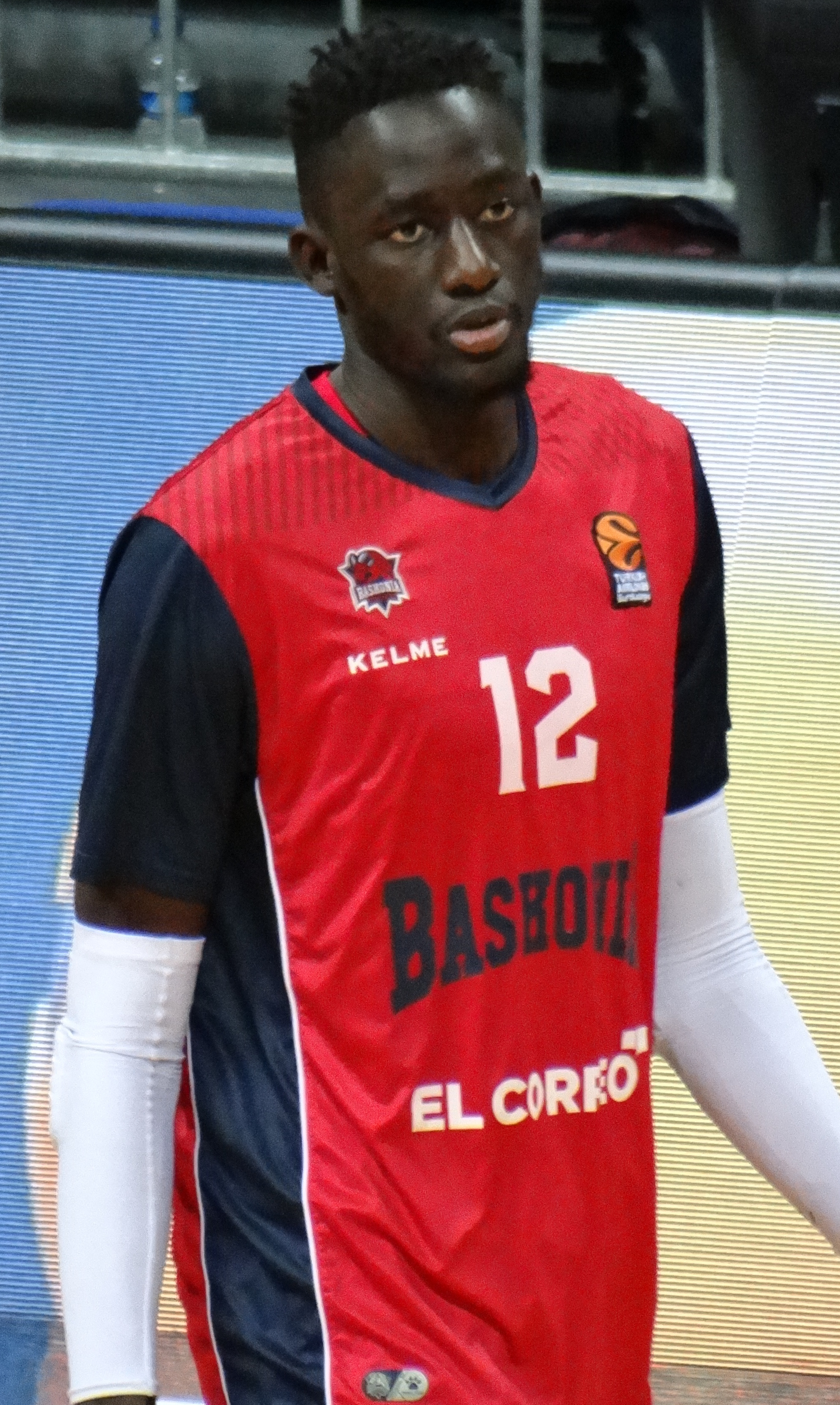 Ilimane Diop Fenerbahçe Men's Basketball vs Saski Baskonia Euroleague 20180105